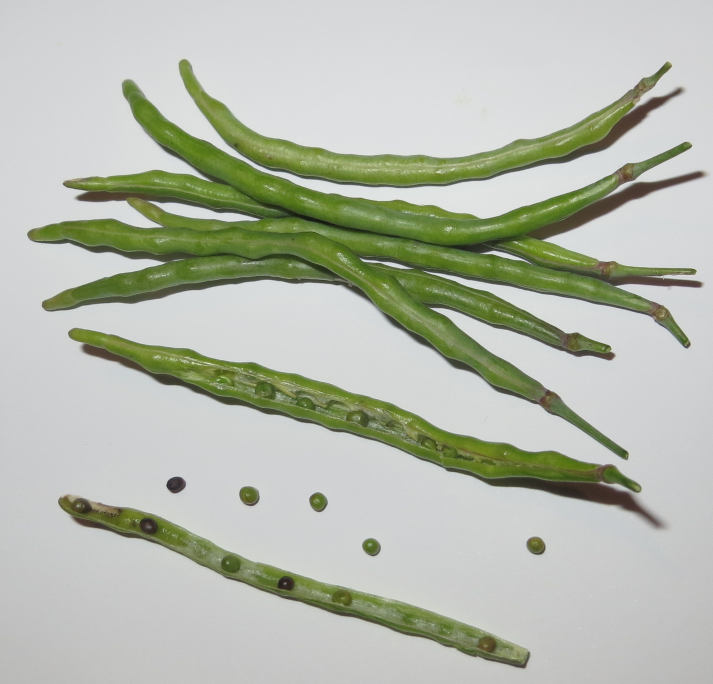 Kohrabi seeds